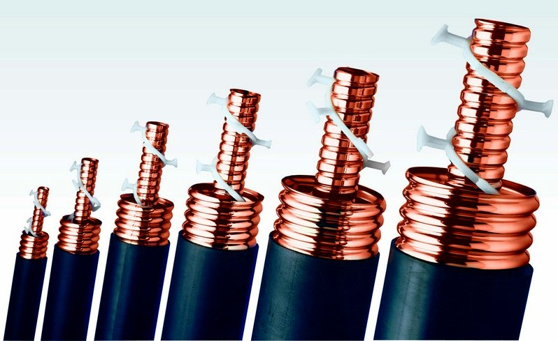 Air-dielectric RF coaxial cables